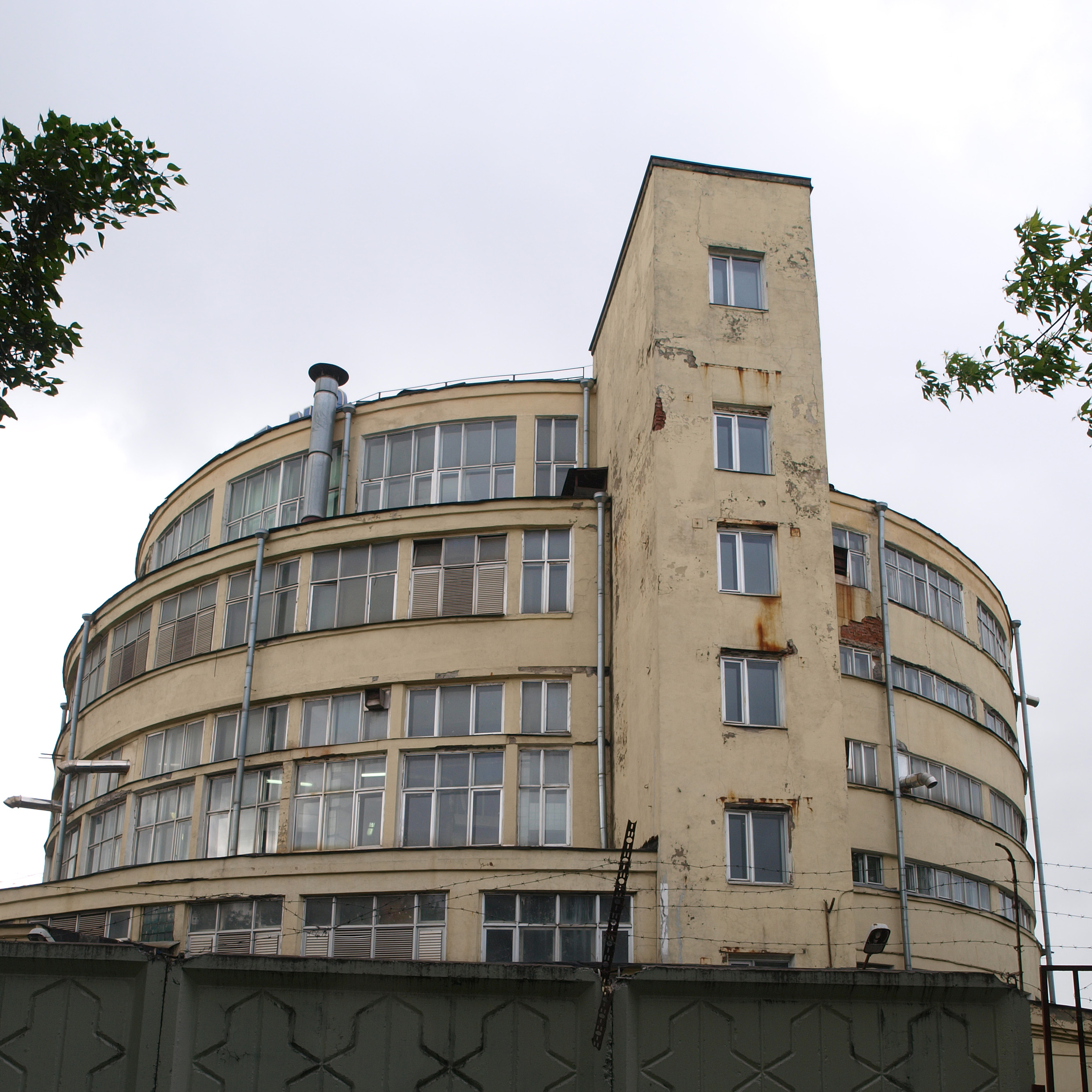 Roundhouse-type bakery in Moscow, Novodmitrovskaya street (operating).